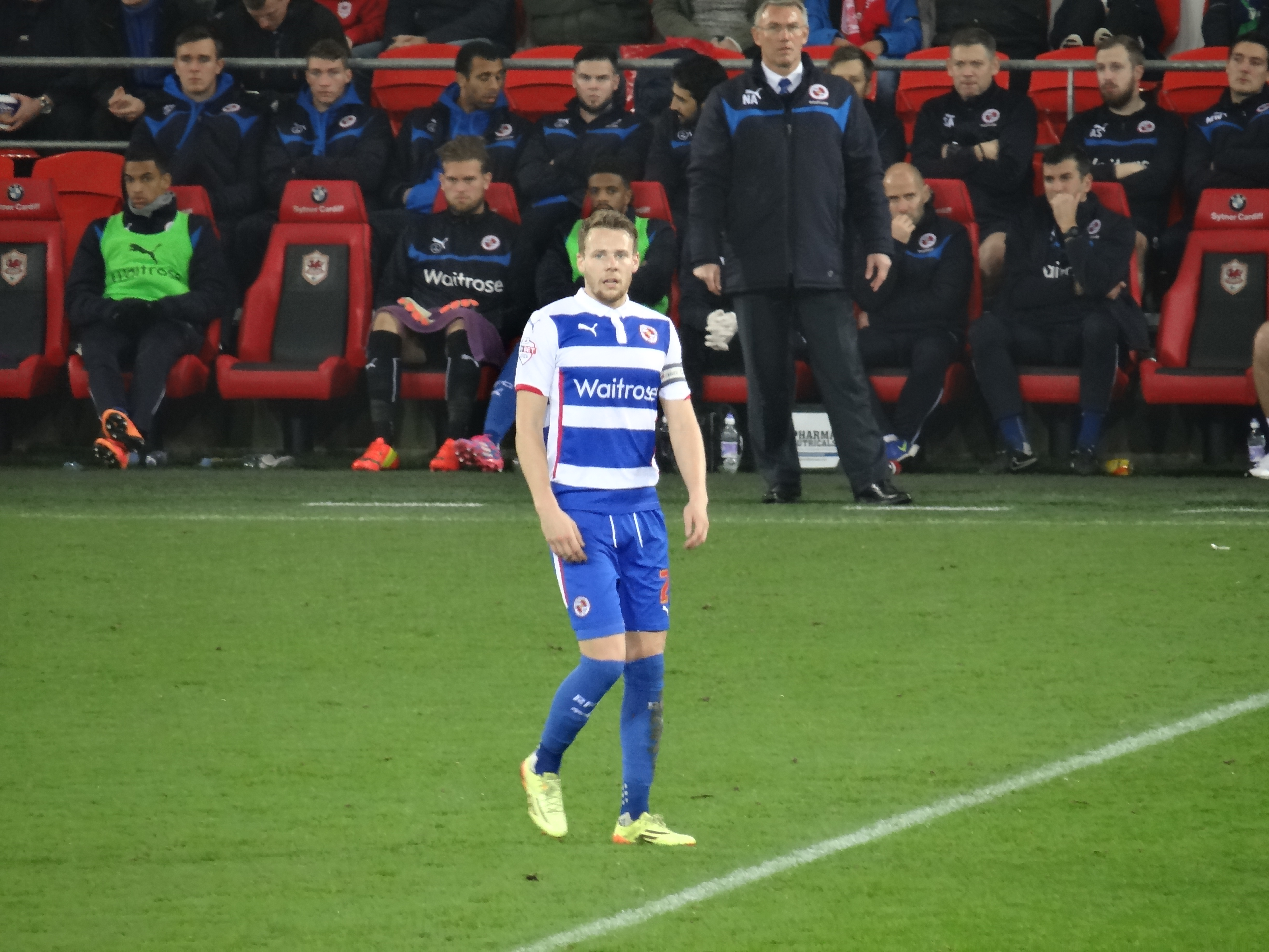 Chris Gunter playing for Reading FC against Cardiff City on 21 November 2014.